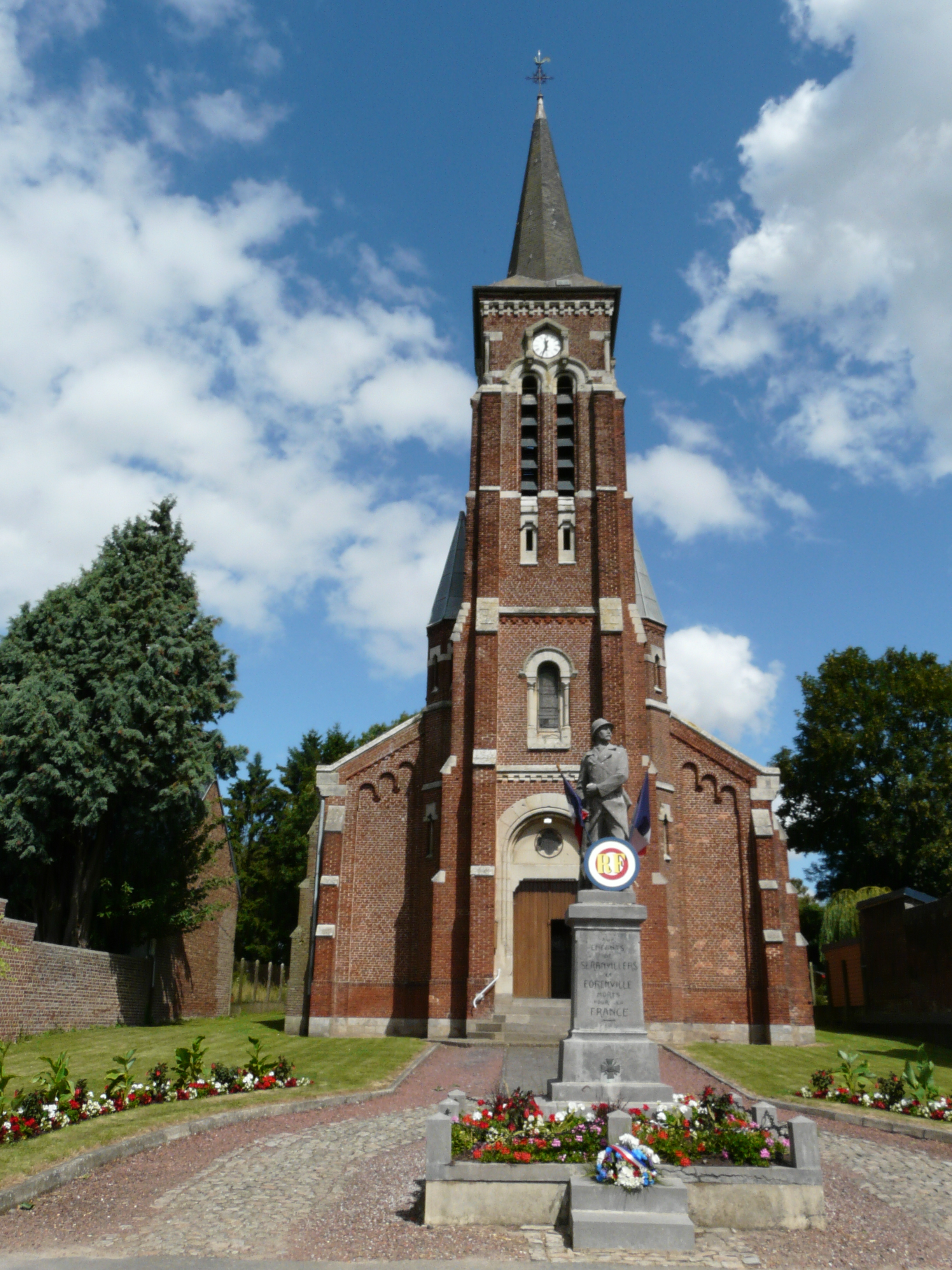 Church and war memorial in Séranvillers-Forenville (Nord, France)